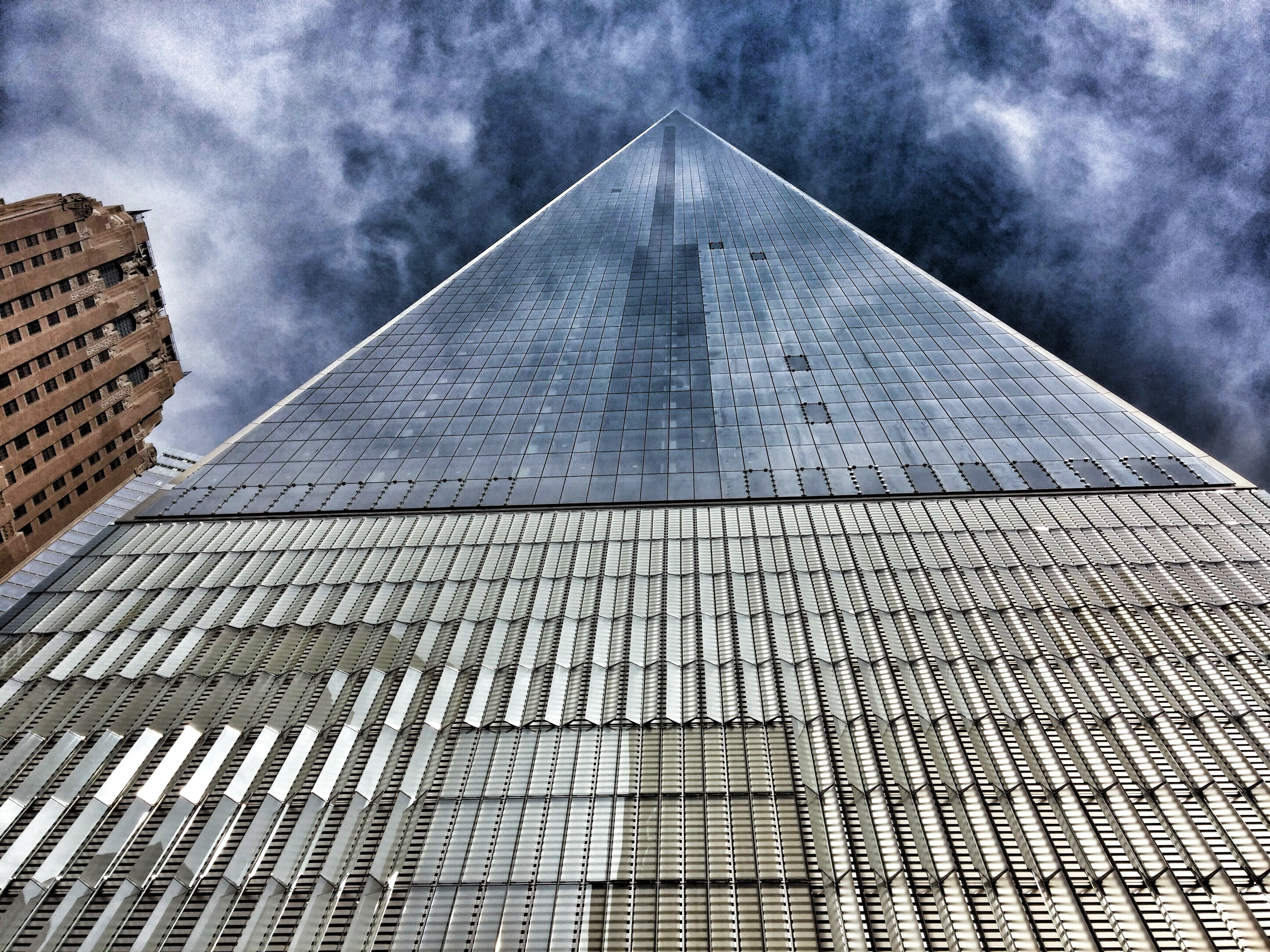 When viewed from street level at close proximity, One World Trade Center (Freedom Tower) appears to ascend to a pyramid point as seen in this view of the West Street side of the building, June 8, 2014.